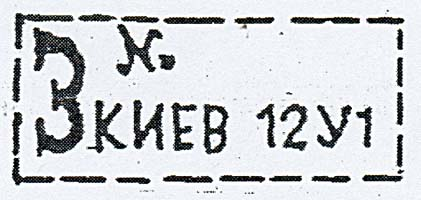 Registered letter postal marking of the Soviet Union that includes a postal code '12У1'. Kiev, 1930s